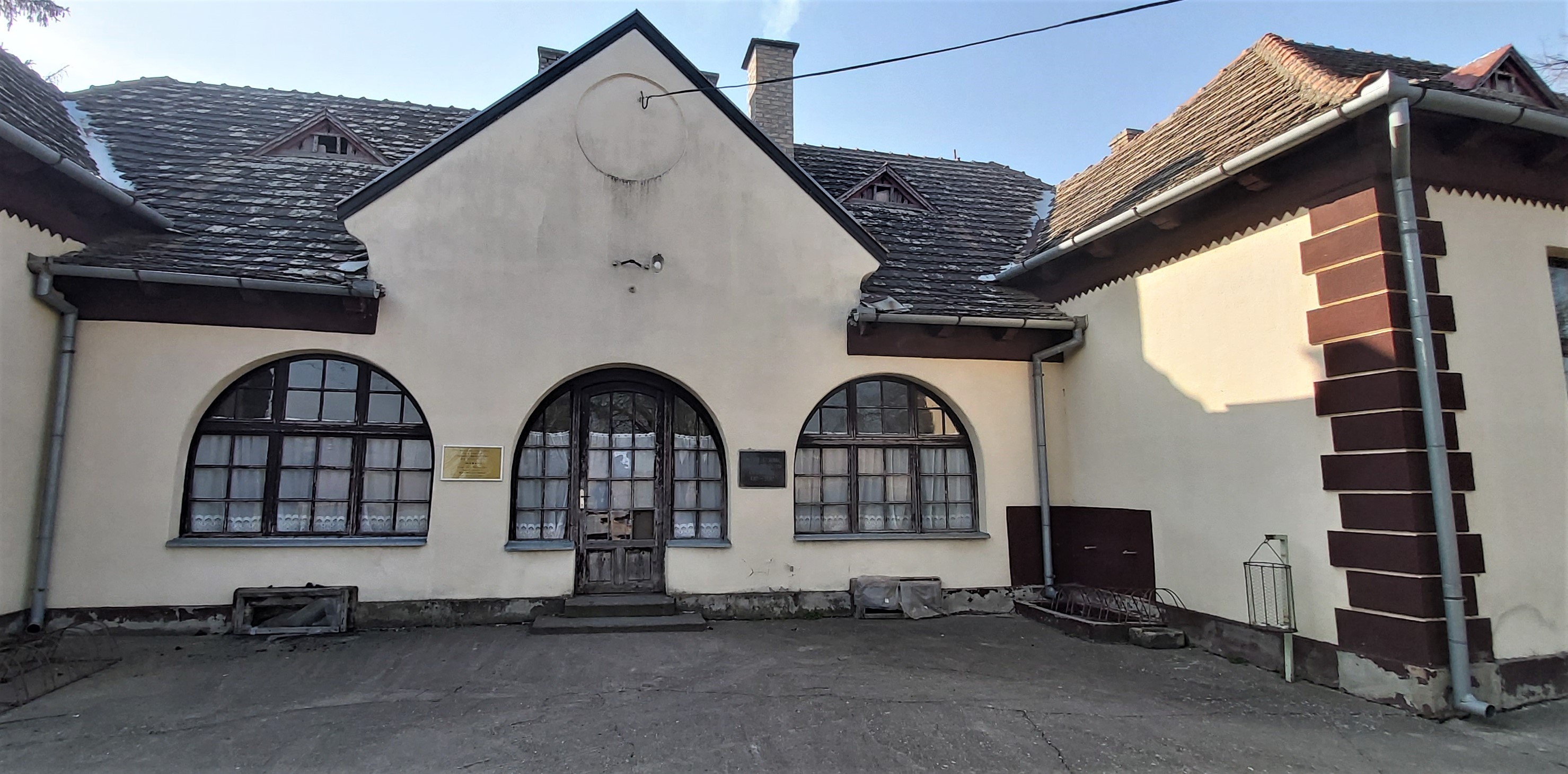 Primary school in Kevi